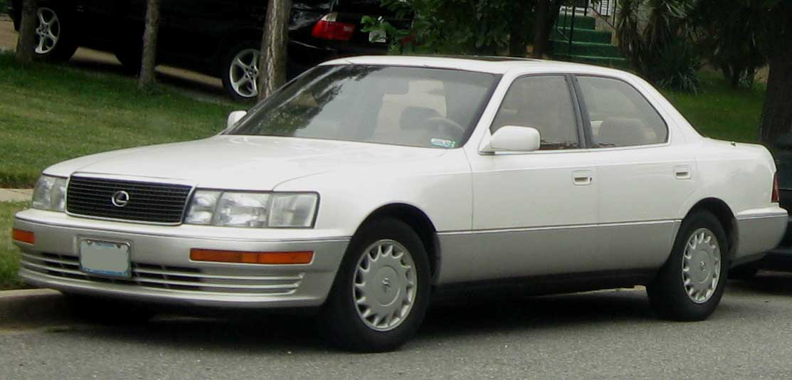 Lexus LS400 photographed in Fort Washington, Maryland, USA.